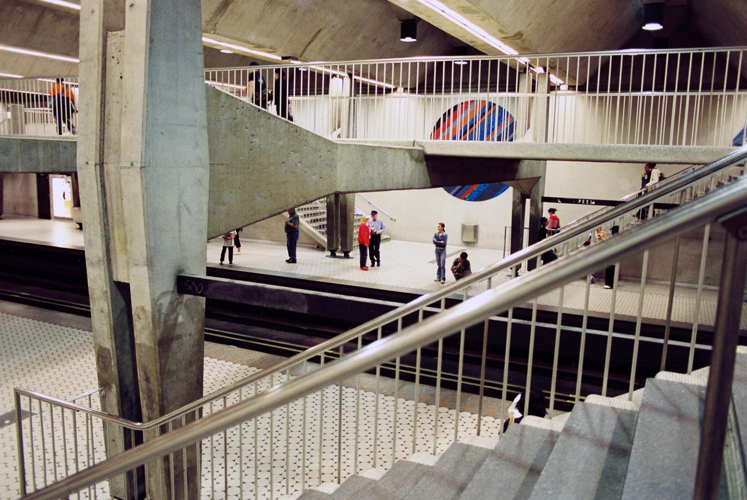 The interior of the Peel metro station in Montréal, Québec, Canada, on the system's Green Line. This photo illustrates the floating mezzanine, supported by pillars and beams.